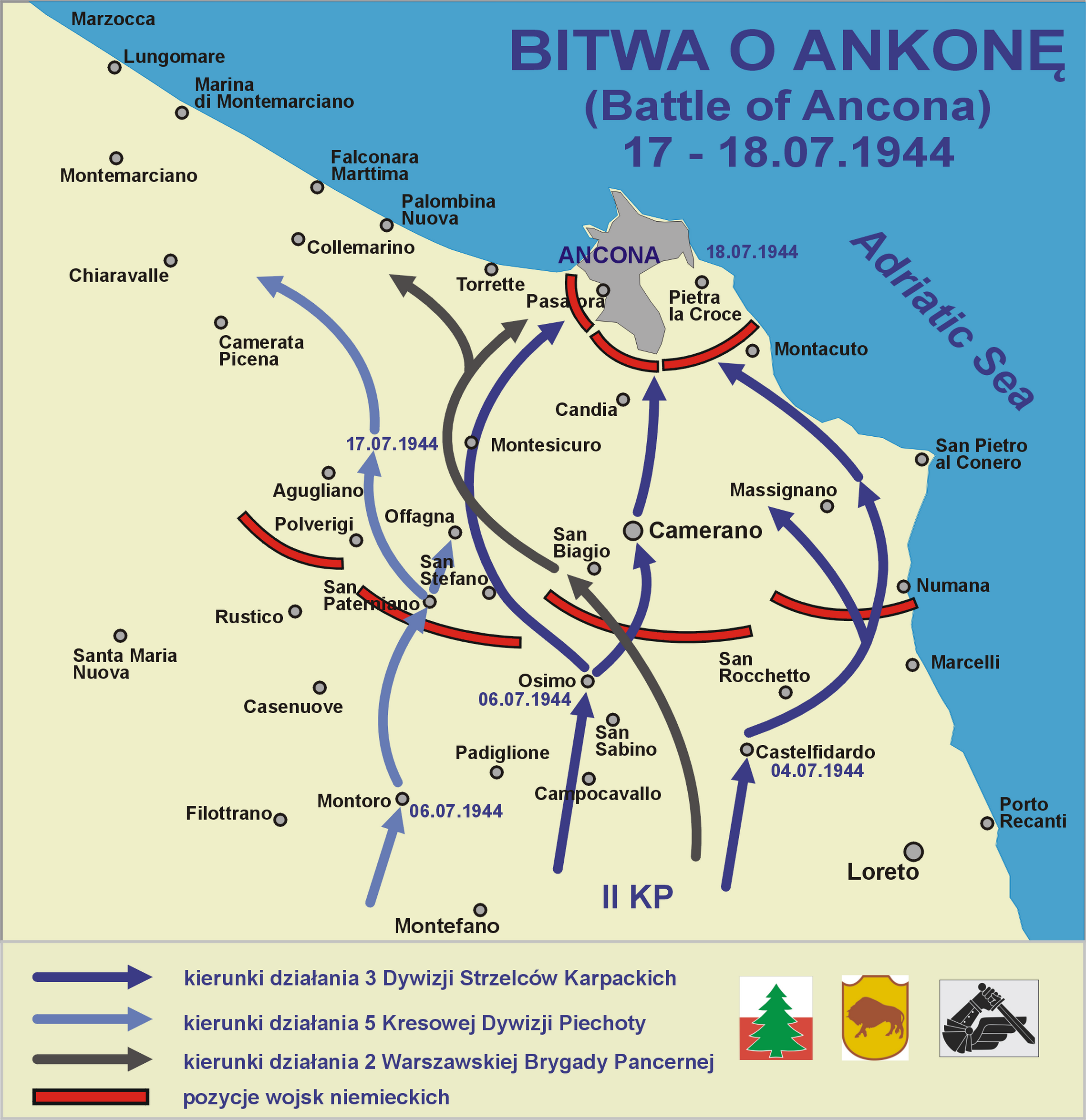 Battle of Ancona (1944.07.17 -18)